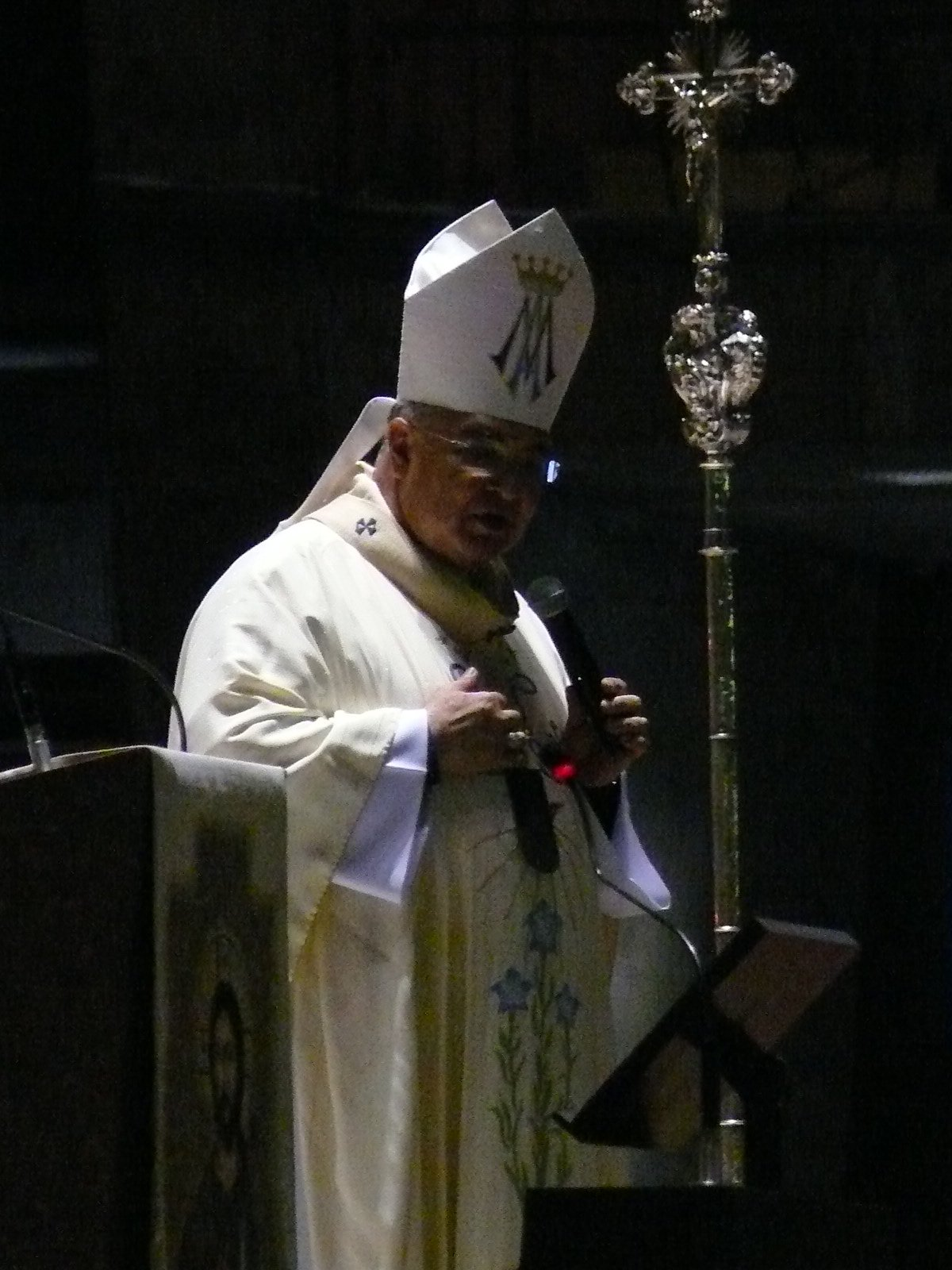 The opening mass for the volunteers of the World Youth Day 2013 at Saint-Sebastian's cathedral of Rio de Janeiro (Brazil).